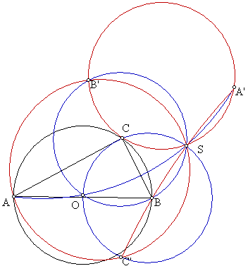 The reflection triangle and six concurring circles